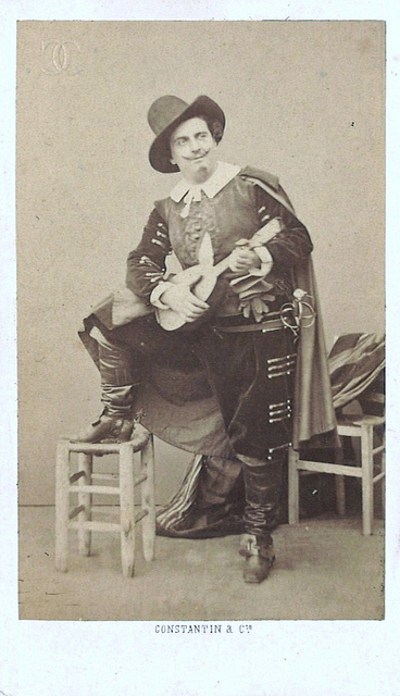 Eugène Crosti (1833–1908), French singer and singing teacher